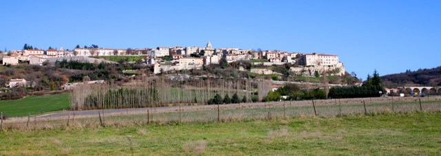 the village of Sault, France